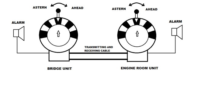 creaTed in painT